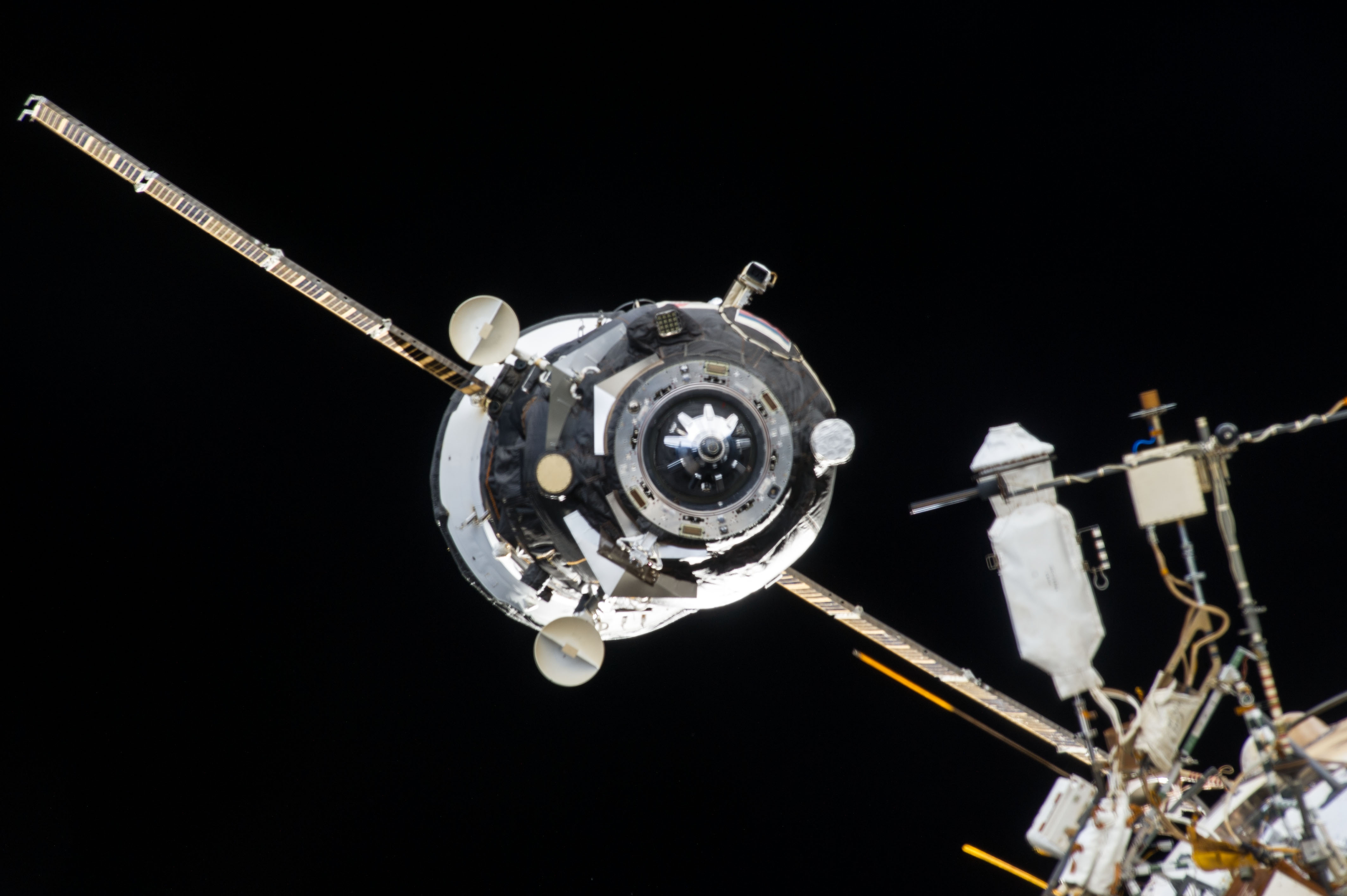 ISS039-E-016869 (23 April 2014) --- The unpiloted Progress 53 cargo ship undocks from the aft port of the Zvezda service module at 3:58 a.m. (CDT) on April 23 and begins its relative separation from the International Space Station for tests on its upgraded Kurs automated rendezvous system that were delayed from last November. The Russian resupply vehicle will move to a distance of some 300 miles from the complex before it begins to phase back in, testing the Kurs-NA rendezvous hardware and its associated software. The enhanced Kurs system will be incorporated into future Progress vehicles to reduce weight by eliminating several navigational antennas, thus enabling the Progress to carry additional supplies to the station. The Progress is scheduled to redock to Zvezda around 7:15 a.m. (CDT) April 25.